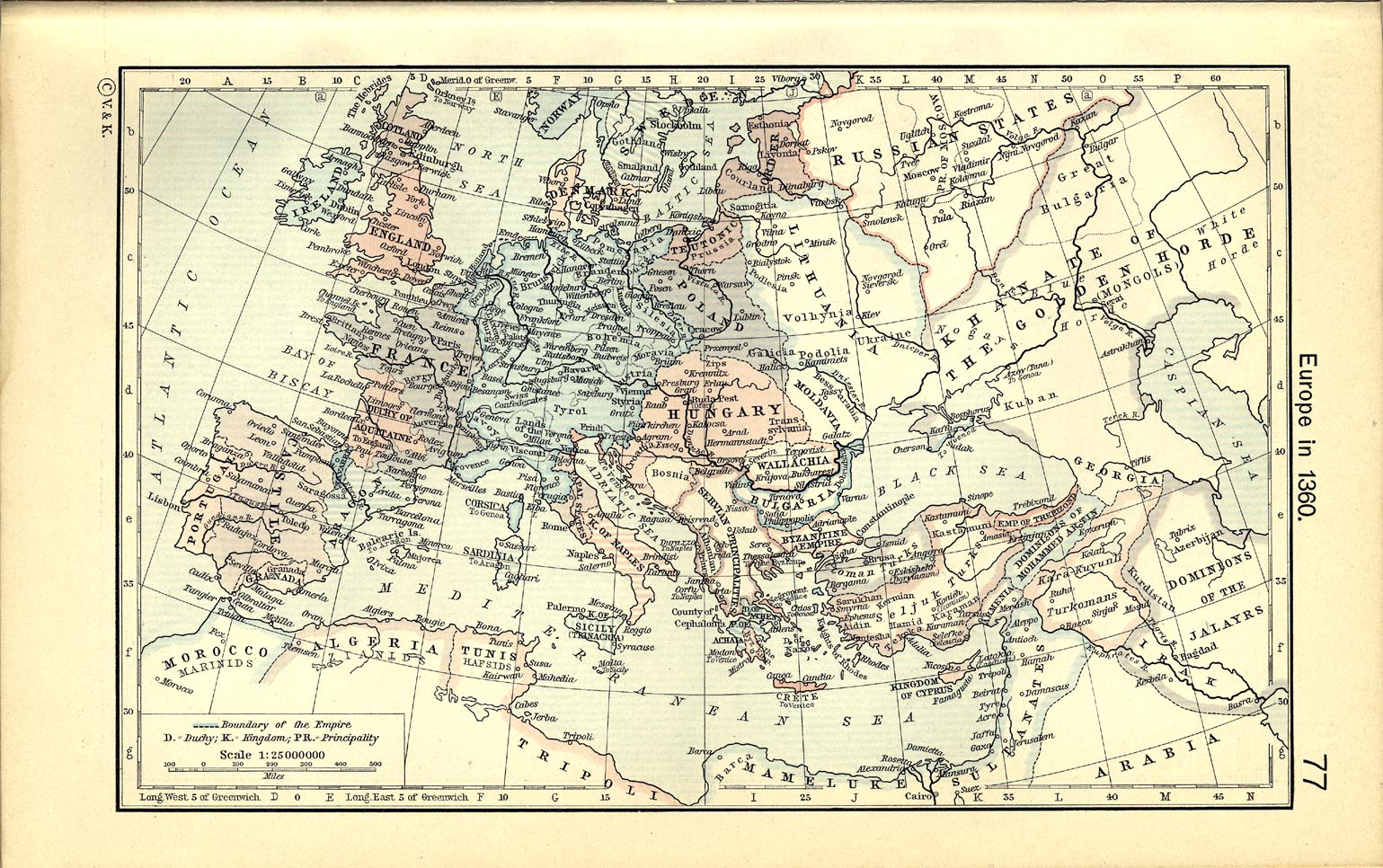 Europe in 1360. Historical Atlas by William R. Shepherd, 1911. Courtesy of the University of Texas Libraries, The University of Texas at Austin. From The Historical Atlas by William R. Shepherd, 1911 edition